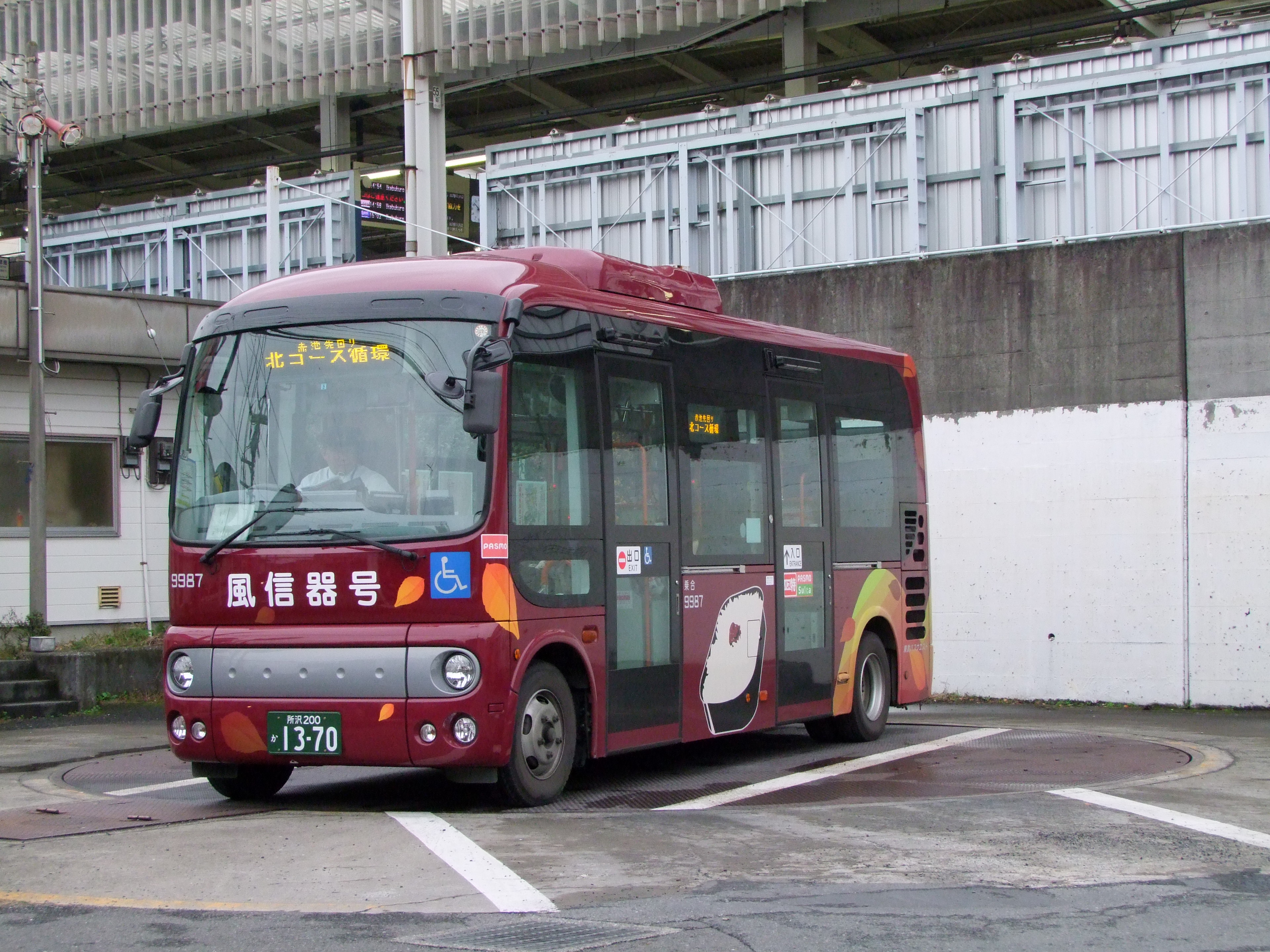 Tobu Bus West #9987 (HINO Poncho), using in Wako city loop bus, at Wakōshi Station north side.